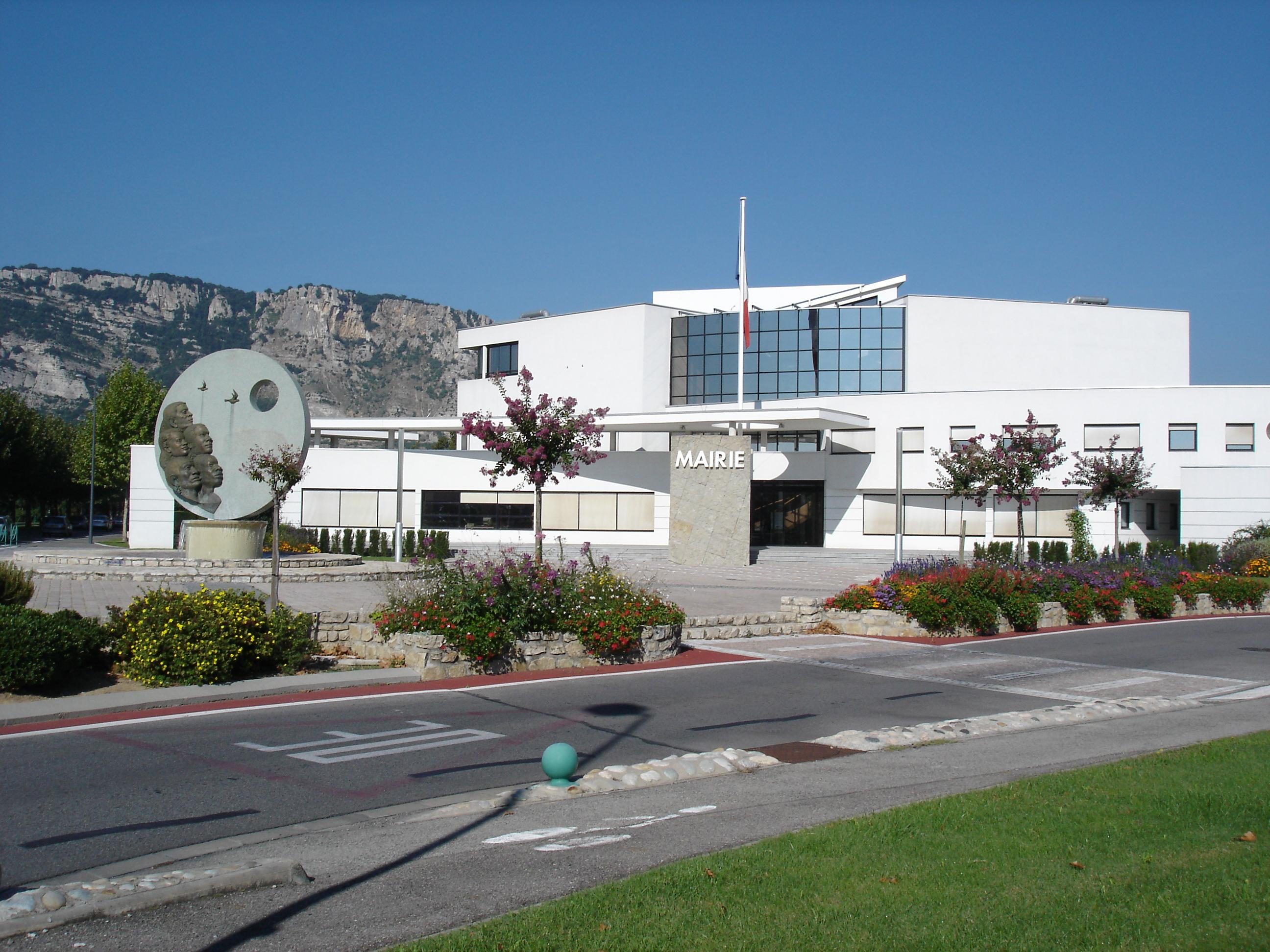 Guilherand-Granges (France) : the town hall and the square of the five continents.